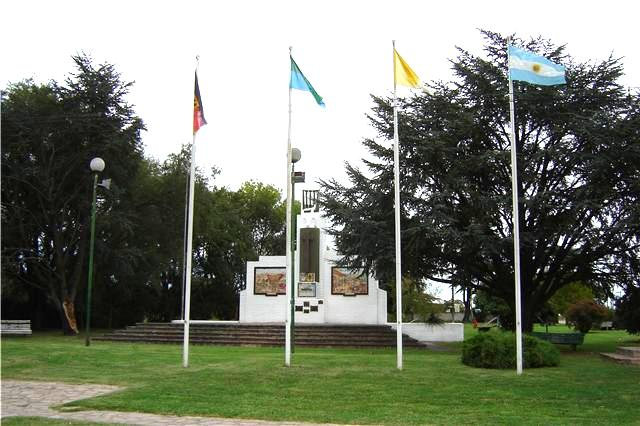 Monument to Volga German settlers in Colonia Hinojo, Olavarría, Buenos Aires Province, Argentina (Volga German colony)